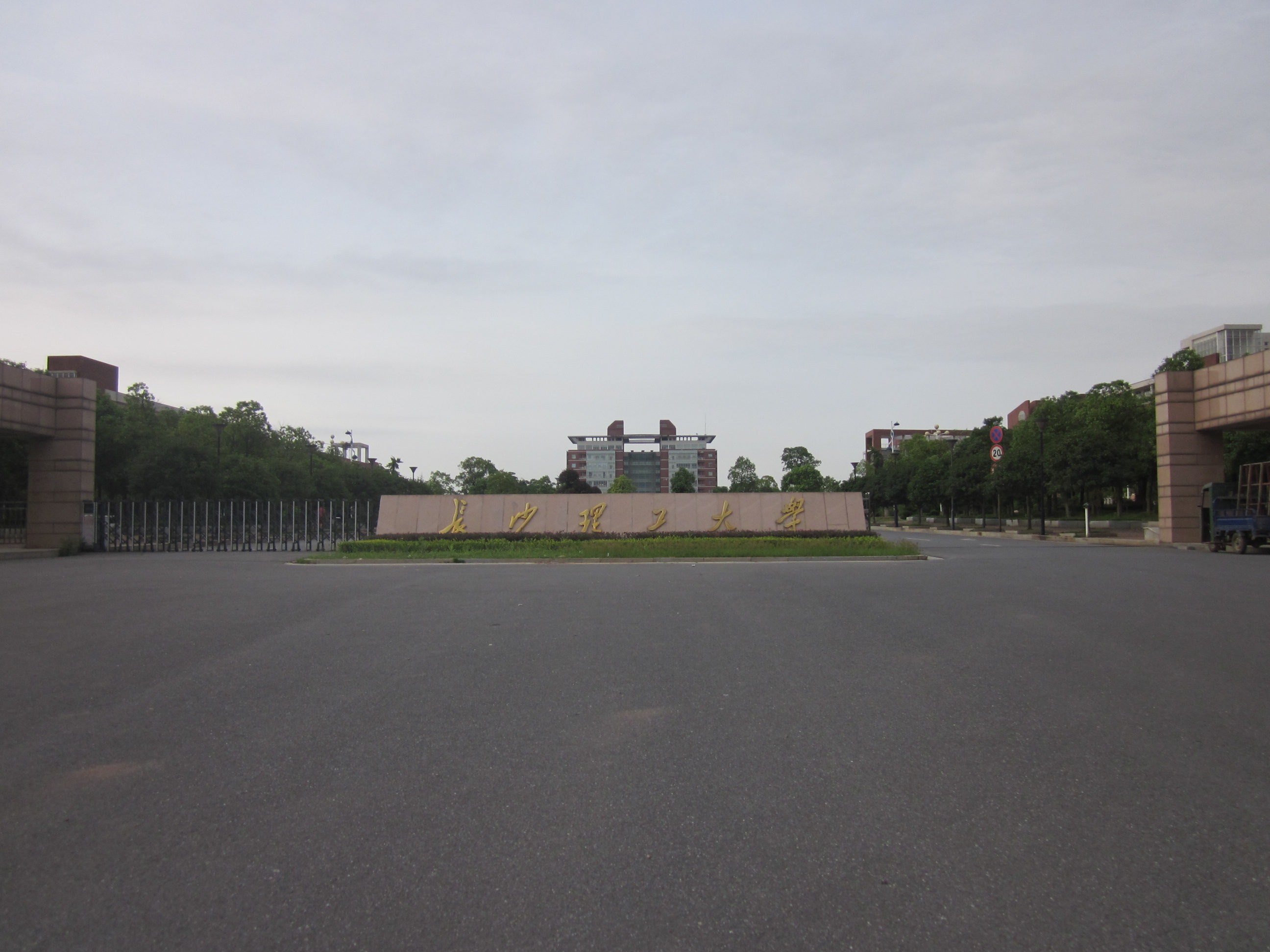 Changsha University of Science and Technology(CSUT; simplified